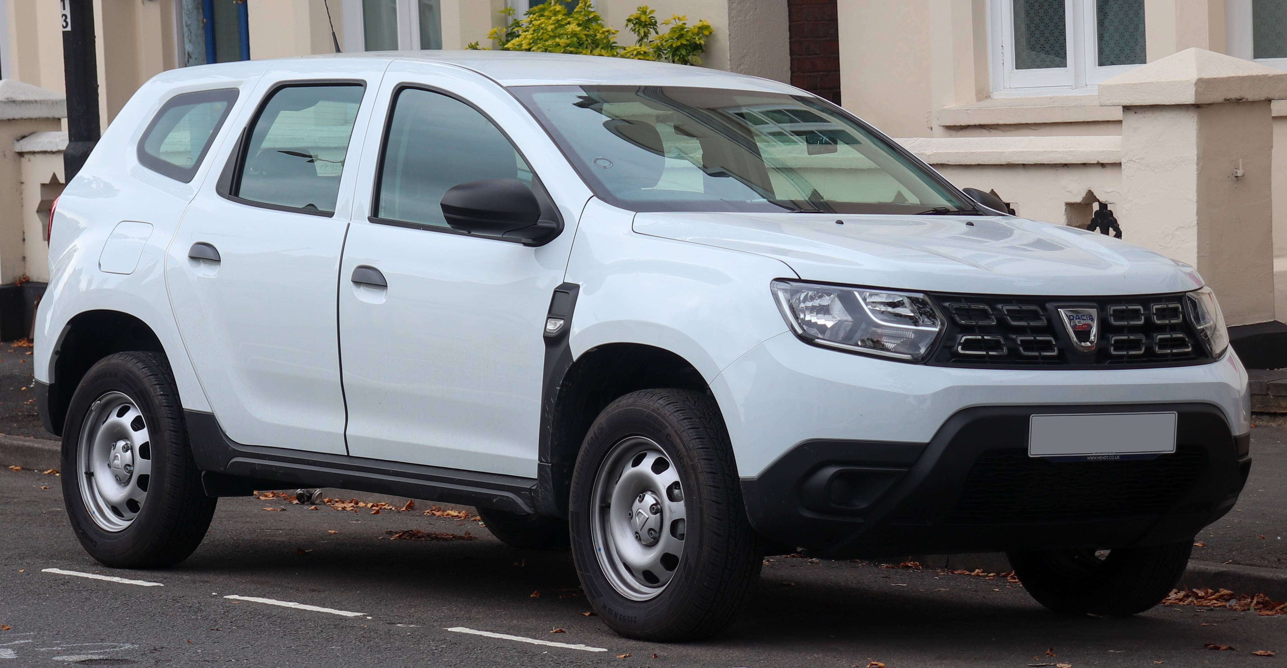 2019 Dacia Duster Access SCE 4X2 1.6 Front Taken in Leamington Spa